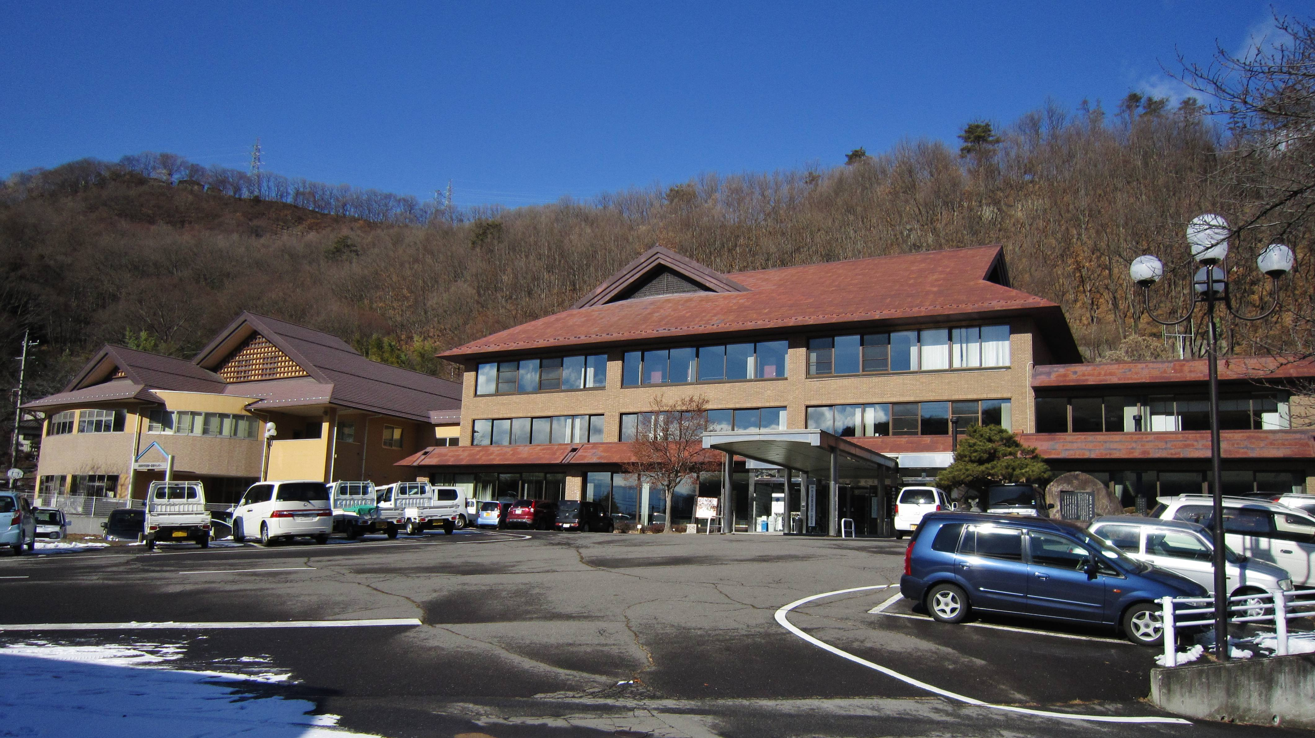 Tōmi city Kitamimaki branch office.